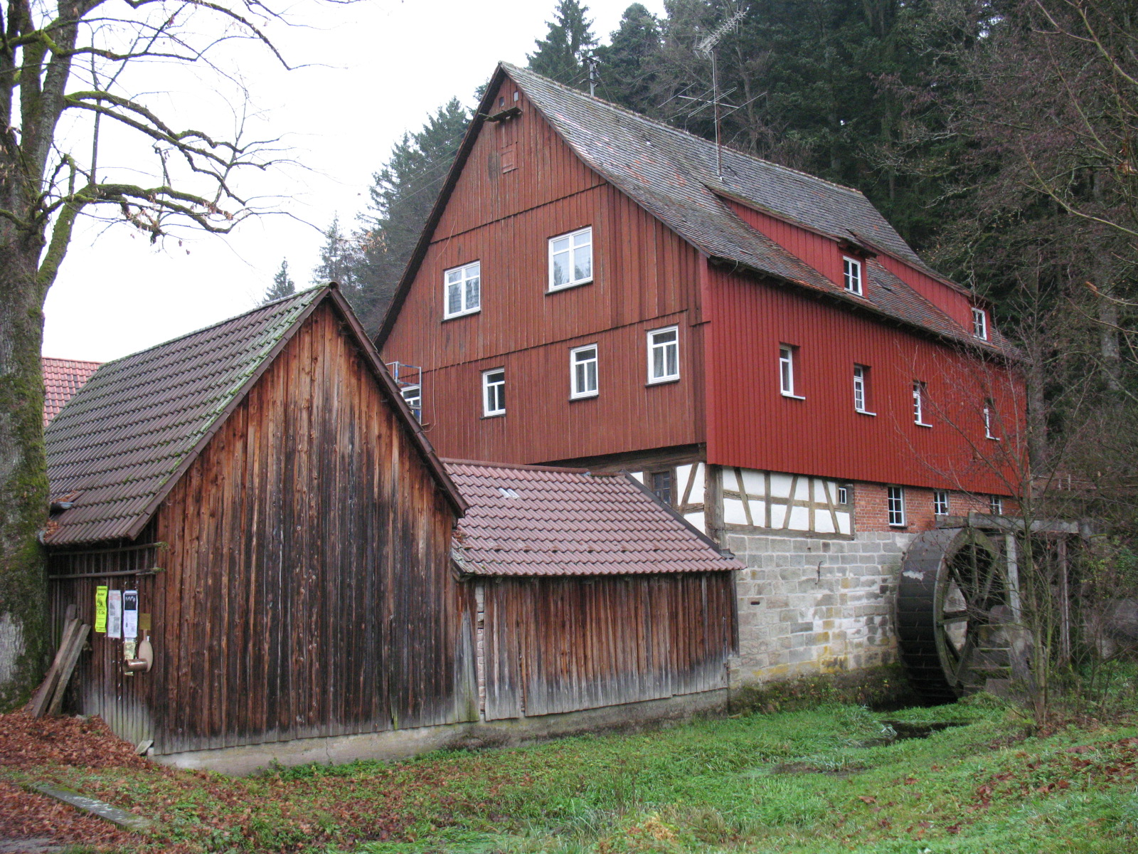 Menzlesmühle in the Gauchhauser Valley